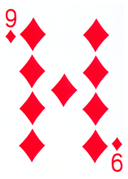 A Playing card: nine of diamonds , from poker deck, in small png format.